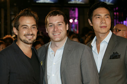 eTalk Star! Schmooze, Toronto International Film Festival party.